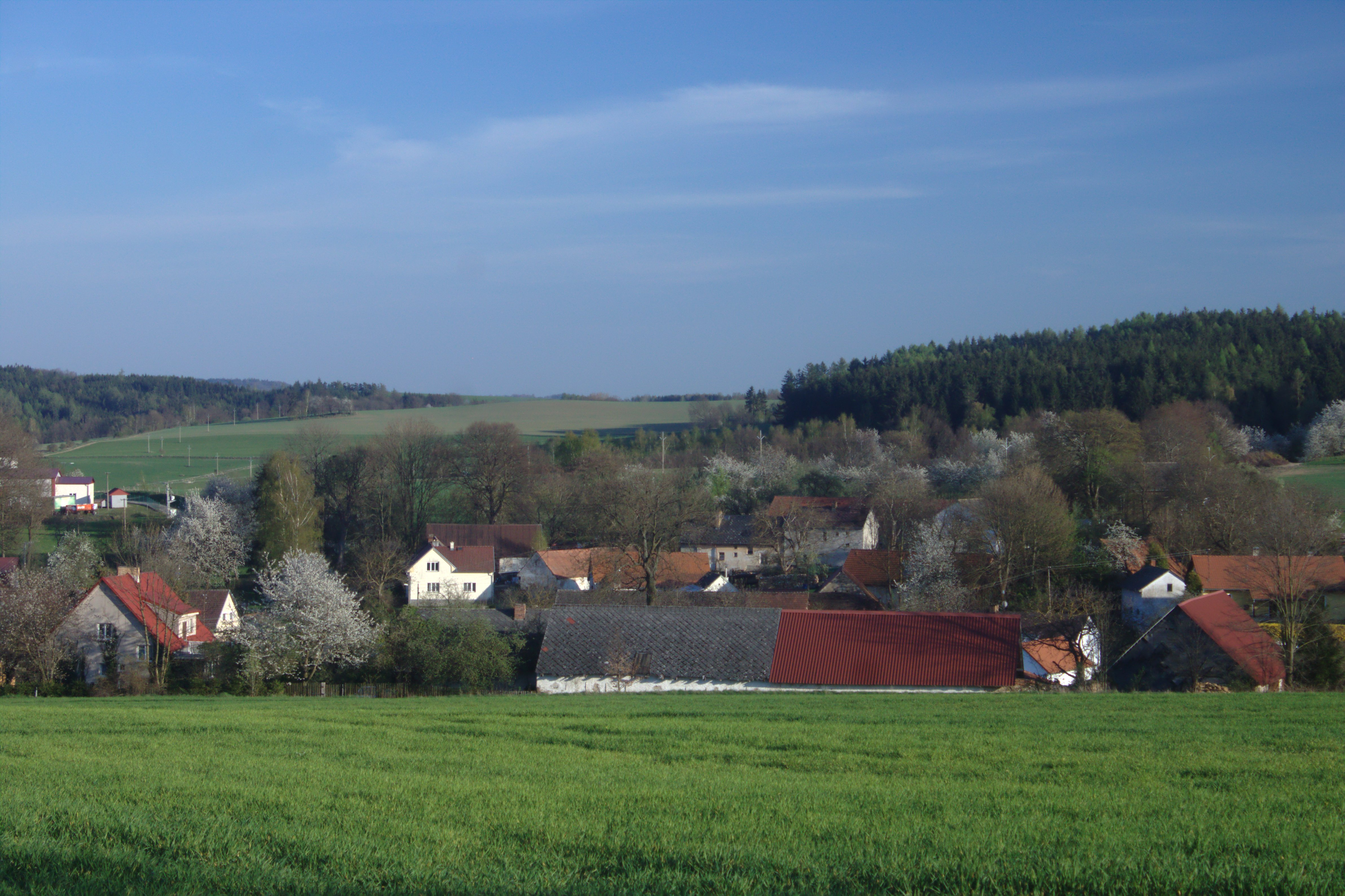 This photograph was created as a part of Wikiexpedition Mladá Vožice, a project supported by Wikimedia Foundation grant.